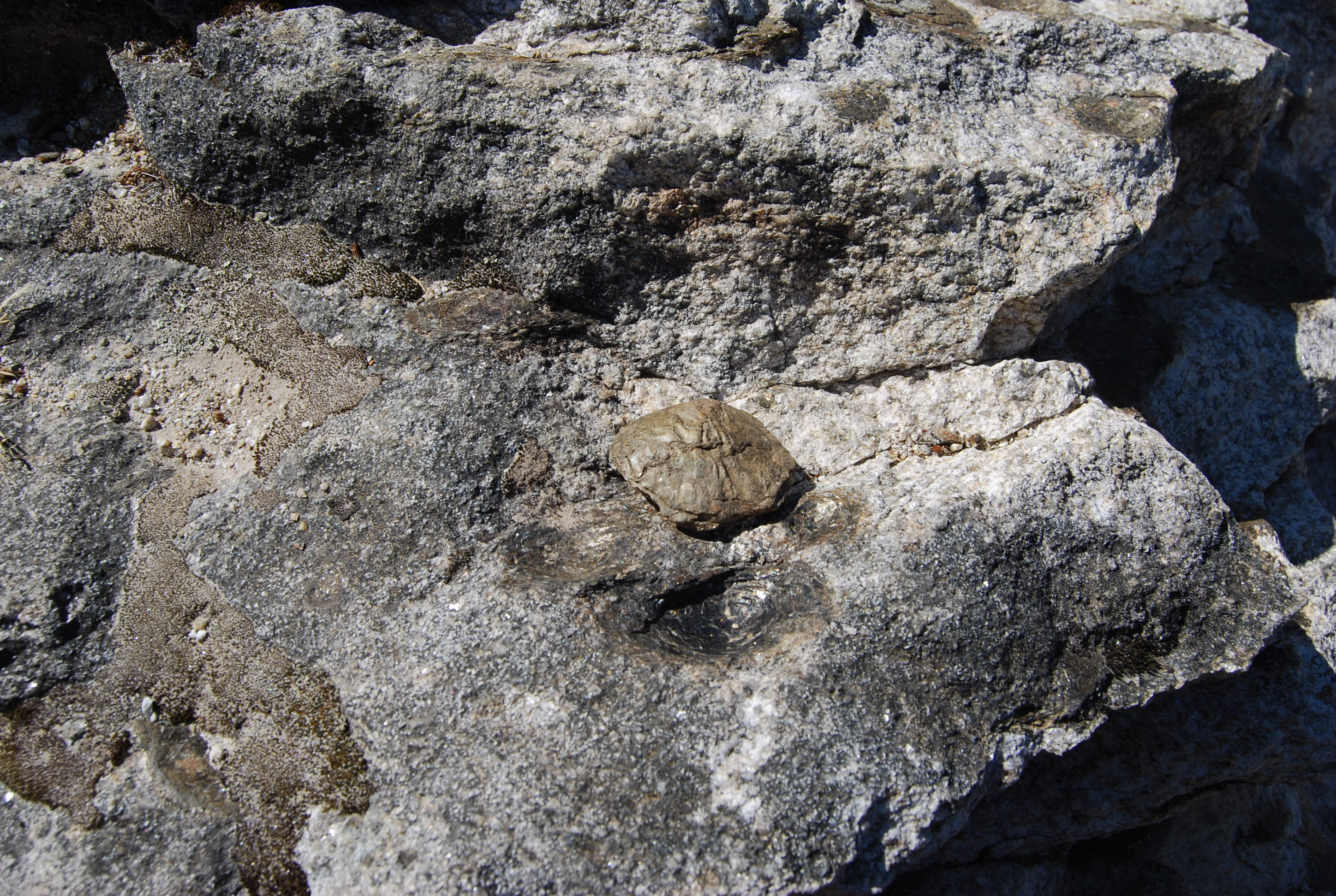 This file was uploaded for Wiki Loves Monuments in Portugal with the unique identifier 97008573.